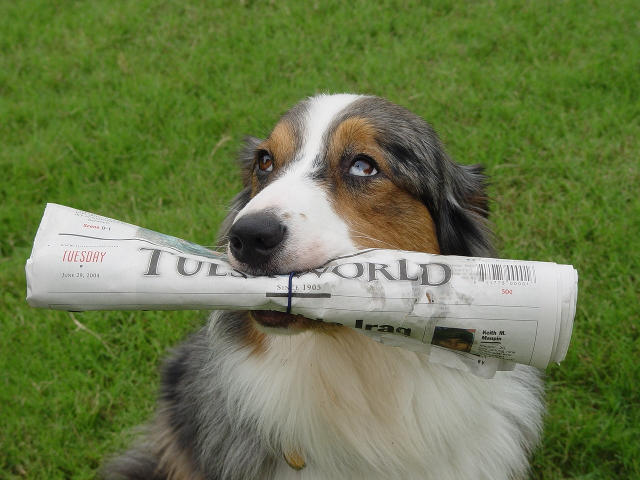 Winston (Copper Oaks Blue Magic, CD) the blue merle Australian Shepherd. He retrieved the Tulsa World each morning.